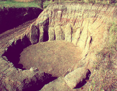 Kromlex_Kitov